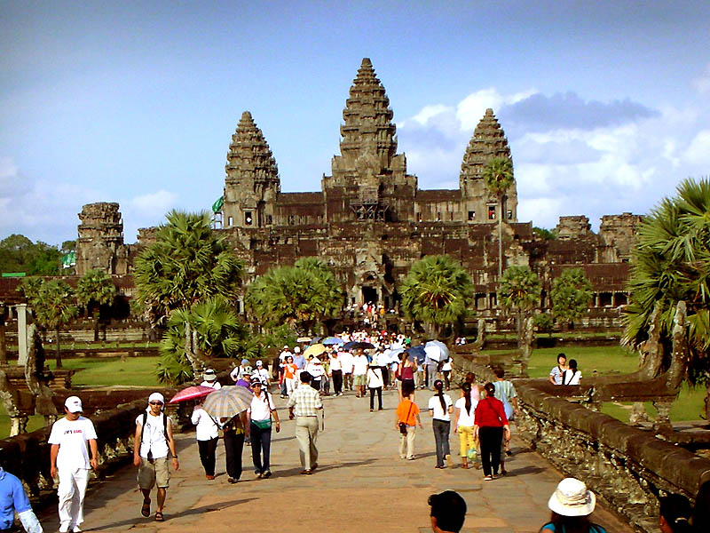 Angkor Wat, Cambodia.